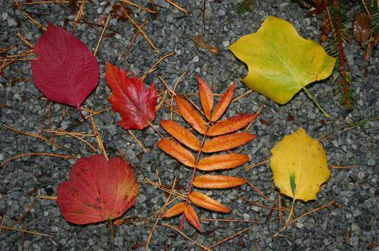 Leaves with diffrent autumn-colours1. Cornus alba2. Acer ginnala3. Liriodendron tulipifera4. Populus tremula x tremuloides5. Sorbus decora6. Viburnum opulus